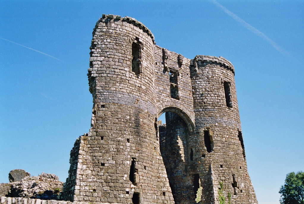 Author: Liam O'Hara 2005